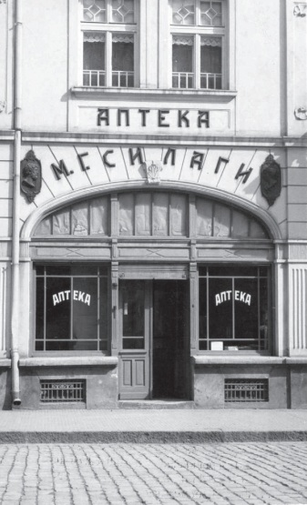 Appearance of pharmacy „Silagi“ - after 1924 year.